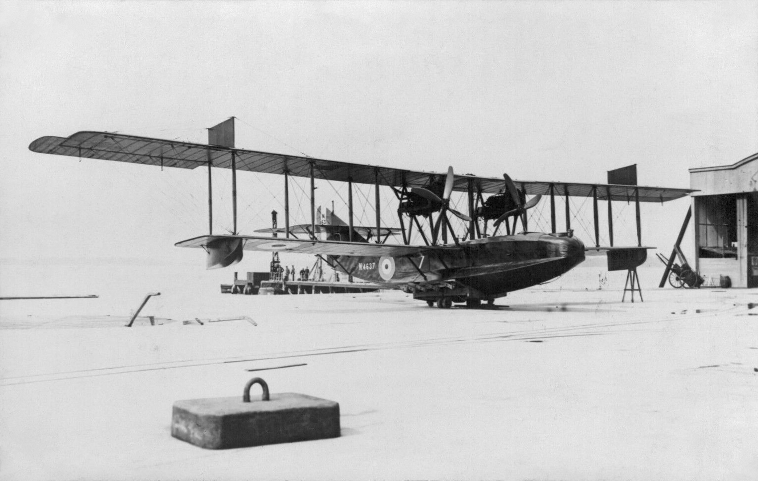 Official photograph of a Gosport Aircraft Company Felixstowe F.5.